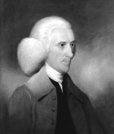 Alexander Wilson, oil. Hunterian Museum, University of Glasgow.